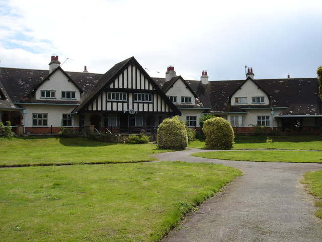 Dorothy Boot Homes, Wilford The Dorothy Boot Homes in Wilford were built in the early 20th century for army veterans. The attractive semi-circle of houses fronts a private green. The houses are now derelict and abandoned, but there are plans to refurbish them (although I suspect modern-day veterans won't be able to afford them).